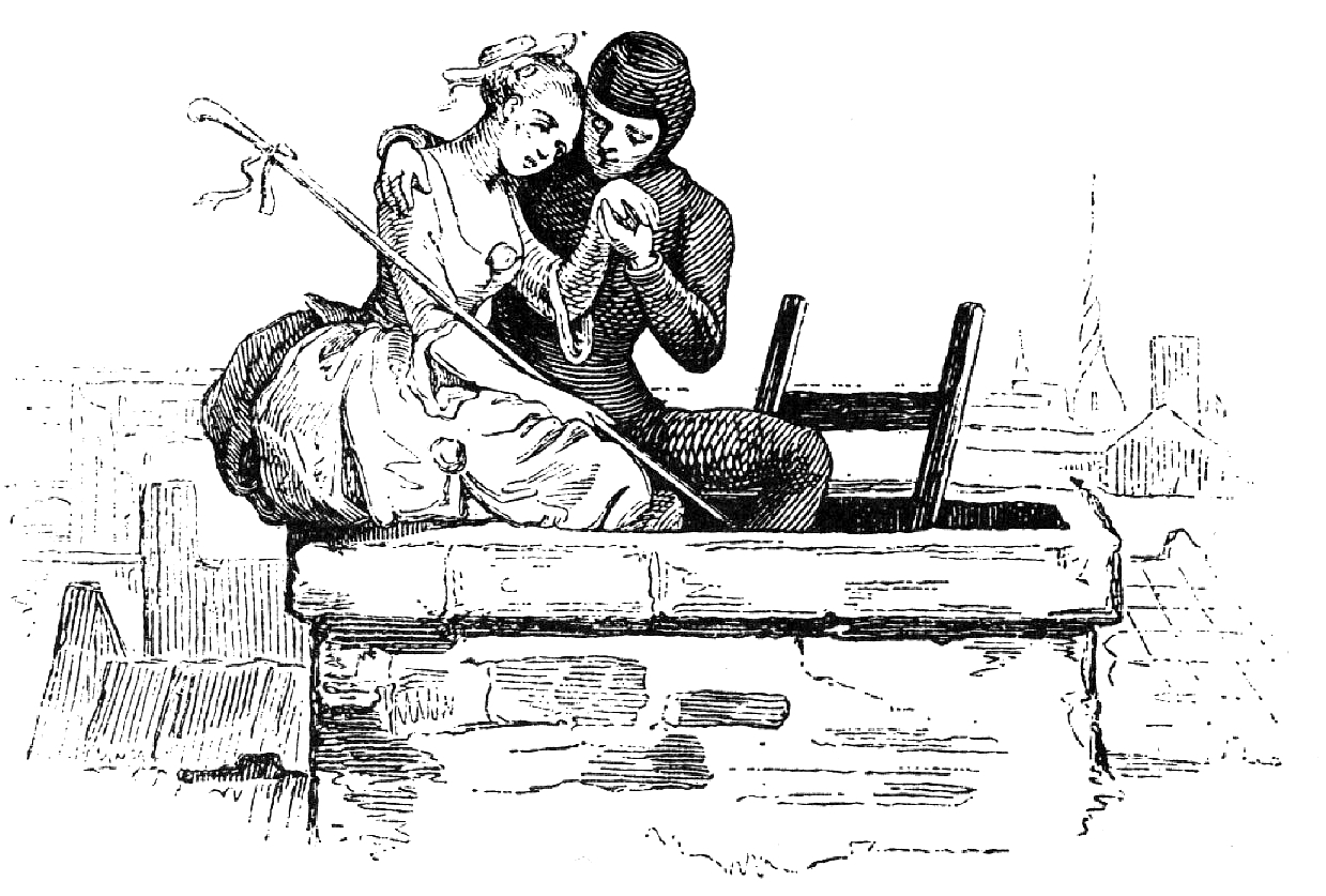 chimney / The Shepherdess and The Sweep